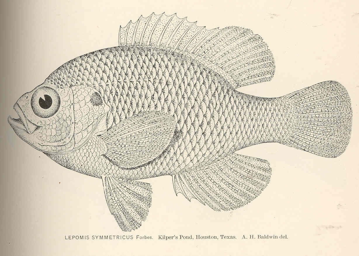 Lepomis symmetricus Forbes. Kilper's Pond, Houston, Texas Subject: Lepomis Tag: Fish